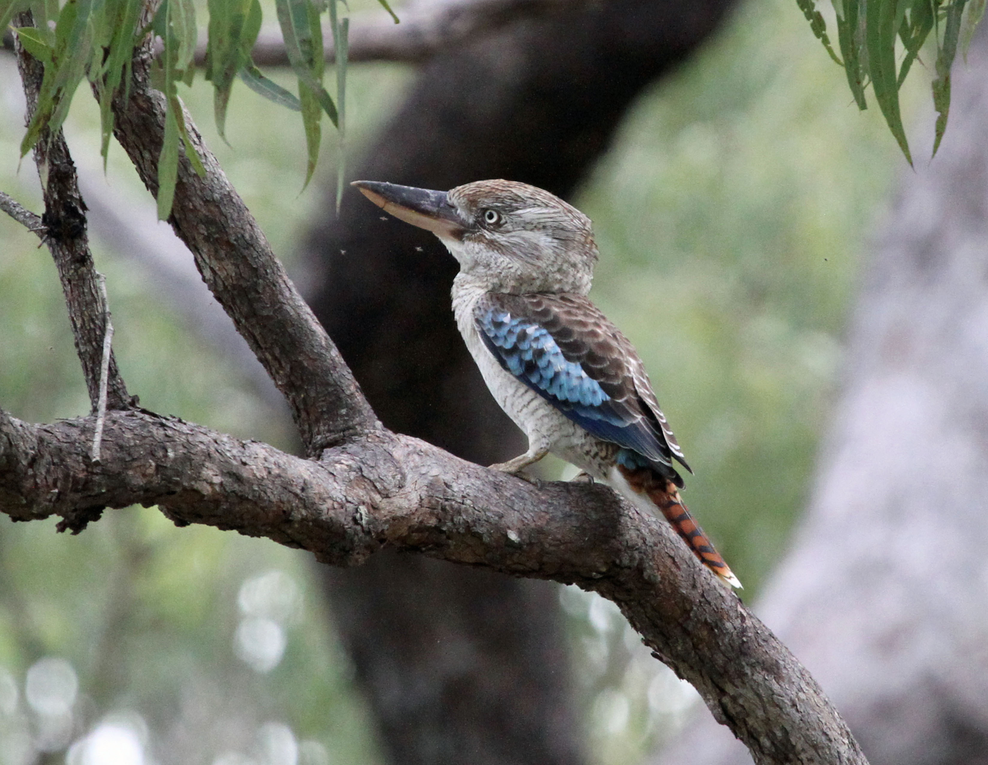 Blue-winged Kookaburra Dacelo leachii, Daintree, Queensland, Australia